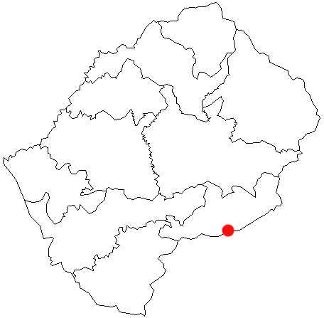 Qacha's Nek, Lesotho Location Map; created with the GIMP. Made by User:Acntx.